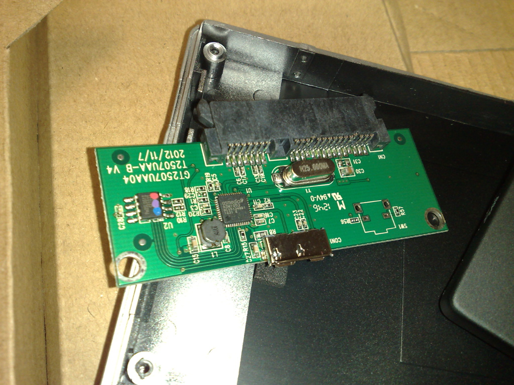 Circuit board from an IcyBox IB-250StU3+BH, which is an external USB 3.0 enclosure that accepts 2.5-inch SATA storage devices. The bridge chip is ASMedia ASM1053, which also supports USB Attached SCSI protocol (UASP).